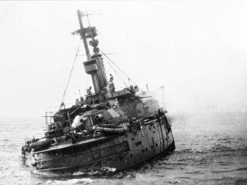 HMS Britannia (1904) sinking on 9 November 1918